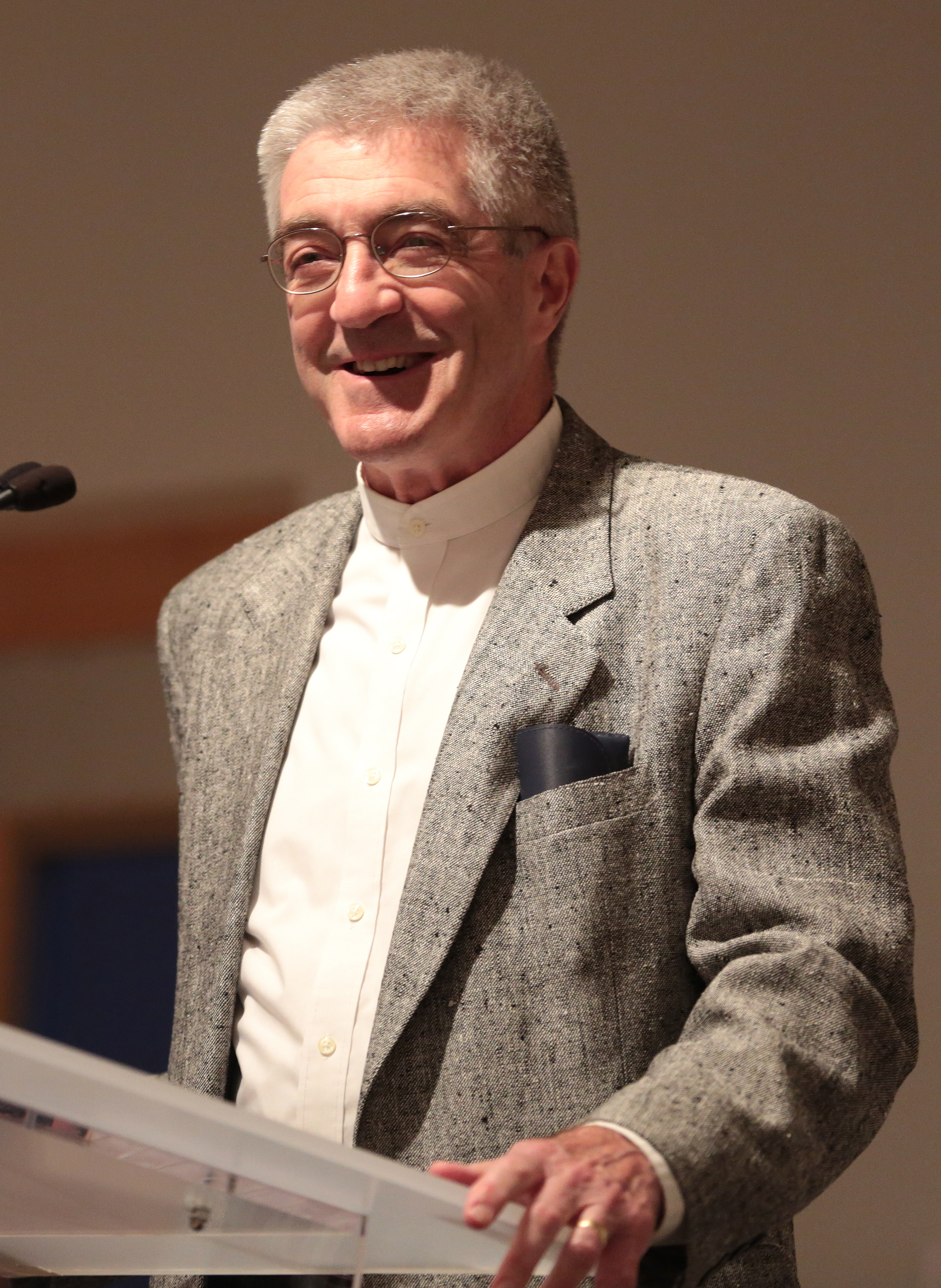 Morris Fiorina speaking at an event in Tempe, Arizona.